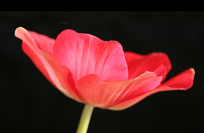 Plant - Anemone